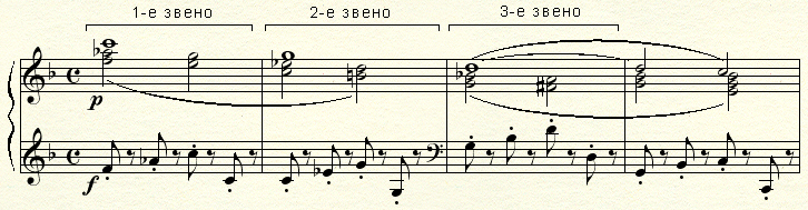 Example of chromatic sequence